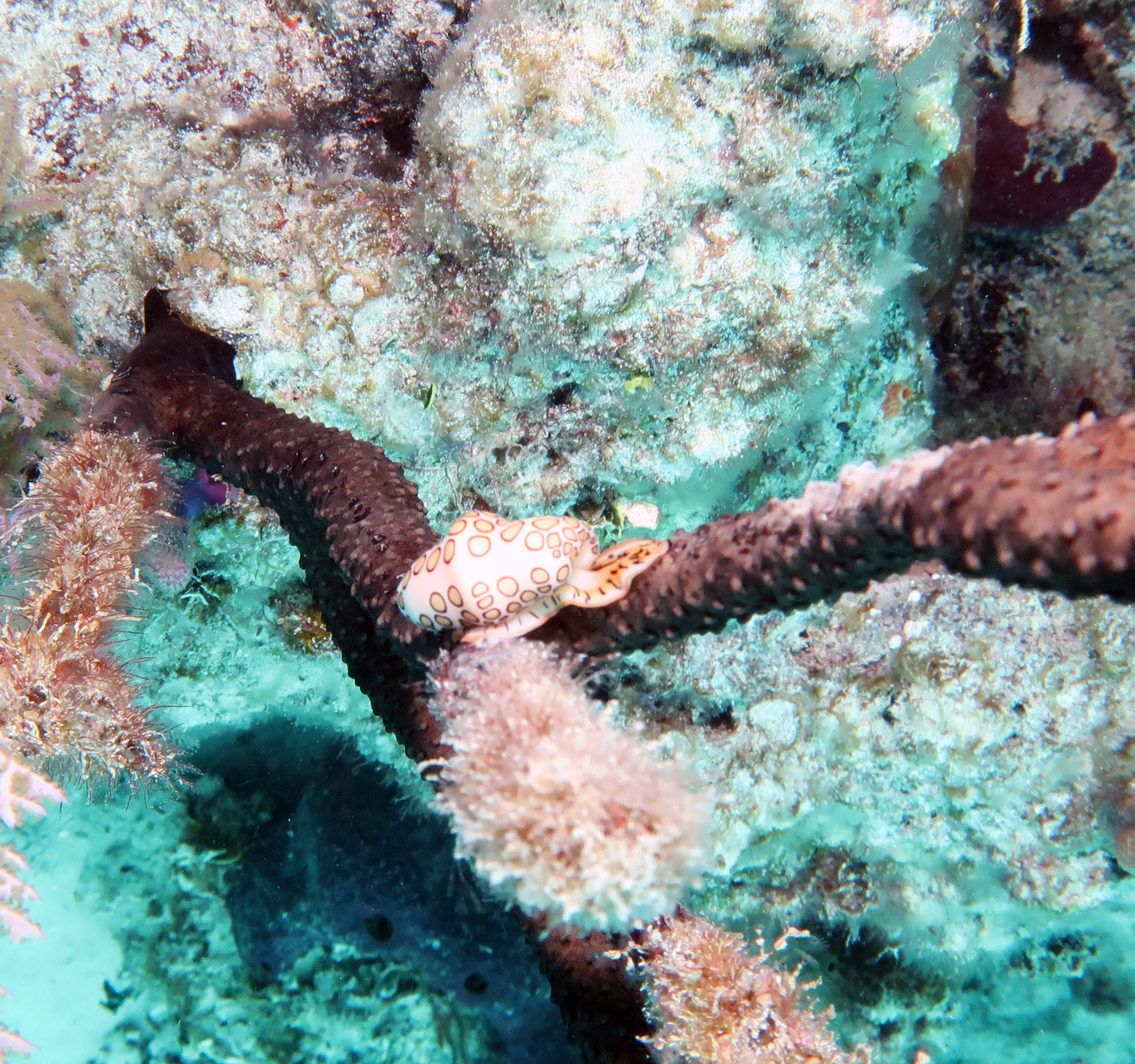 View of a Flamingo Tongue Snail with part of the body visible out of the shell